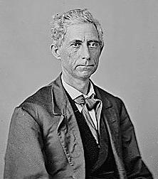 Burwell C. Ritter, US Representative from Kentucky